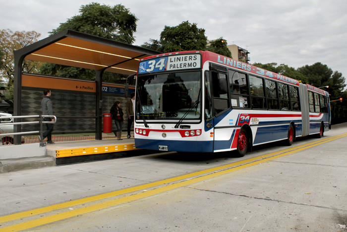 Bus at a Metrobus Juan B Justo station.